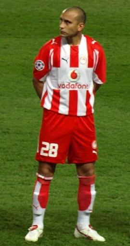 Cristian Ledesma playing for Olympiacos C.F.P. in 2008